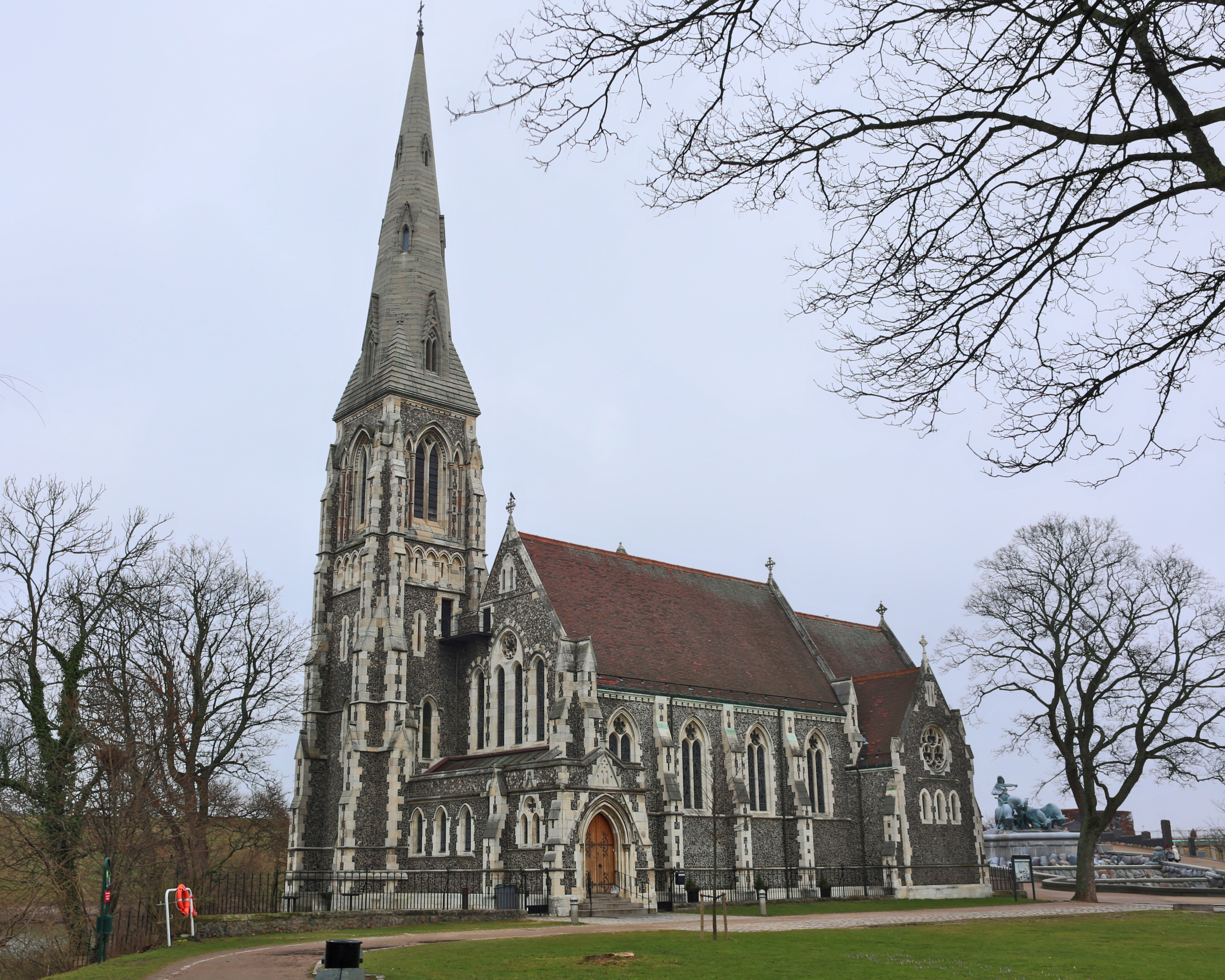 St. Alban's Anglican Church, Copenhagen